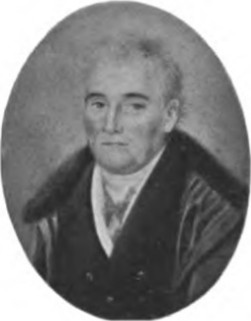 A. Aufrère of Hoveton Hall 1757-1833. Married Marianne, dau. of Count Lockhart-Wishart